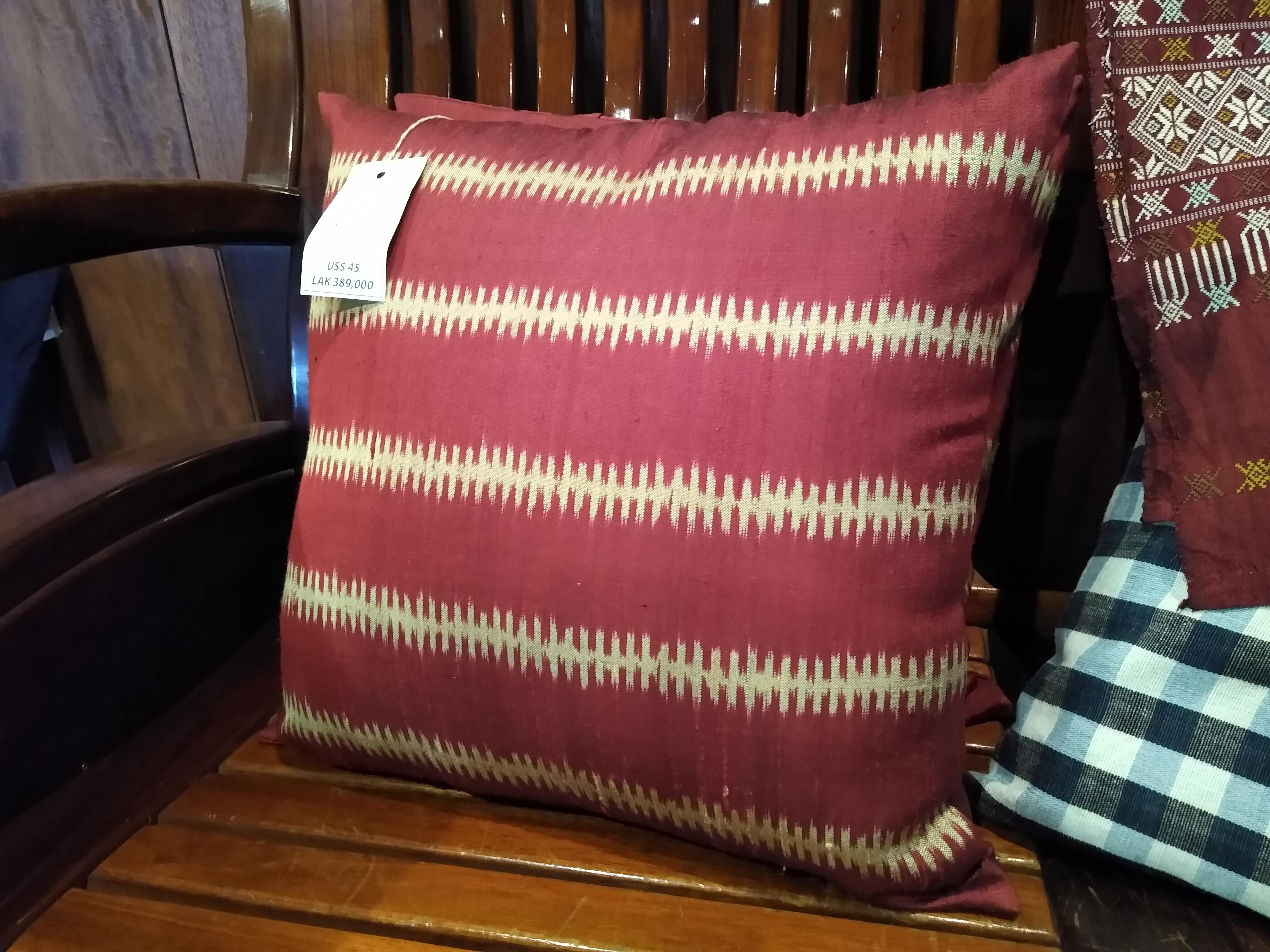 A silk pillowcase for sale at the Lao Textile Museum in Vientiane. Label: Mat Mi Pillow Case Silk Hand Woven Made in Laos US$45 LAK 389,000